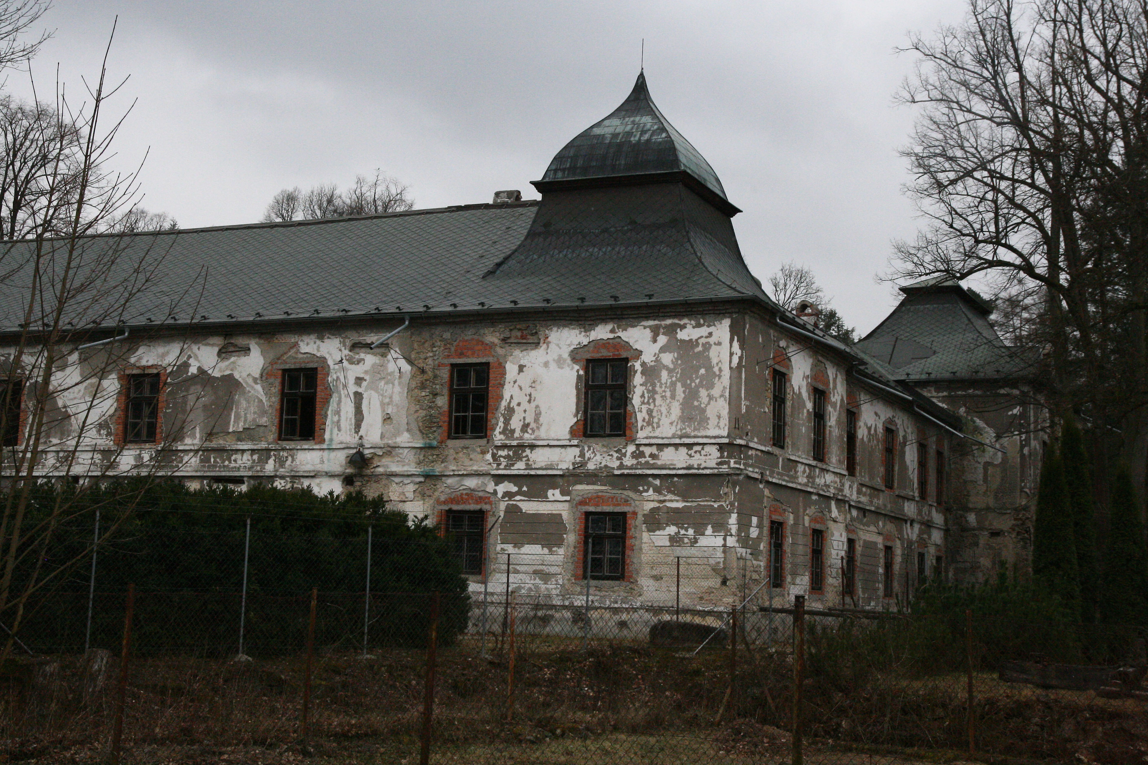 Révay château in Turčianska Štiavnička, renaissance building, baroque conversion in late 18th century.